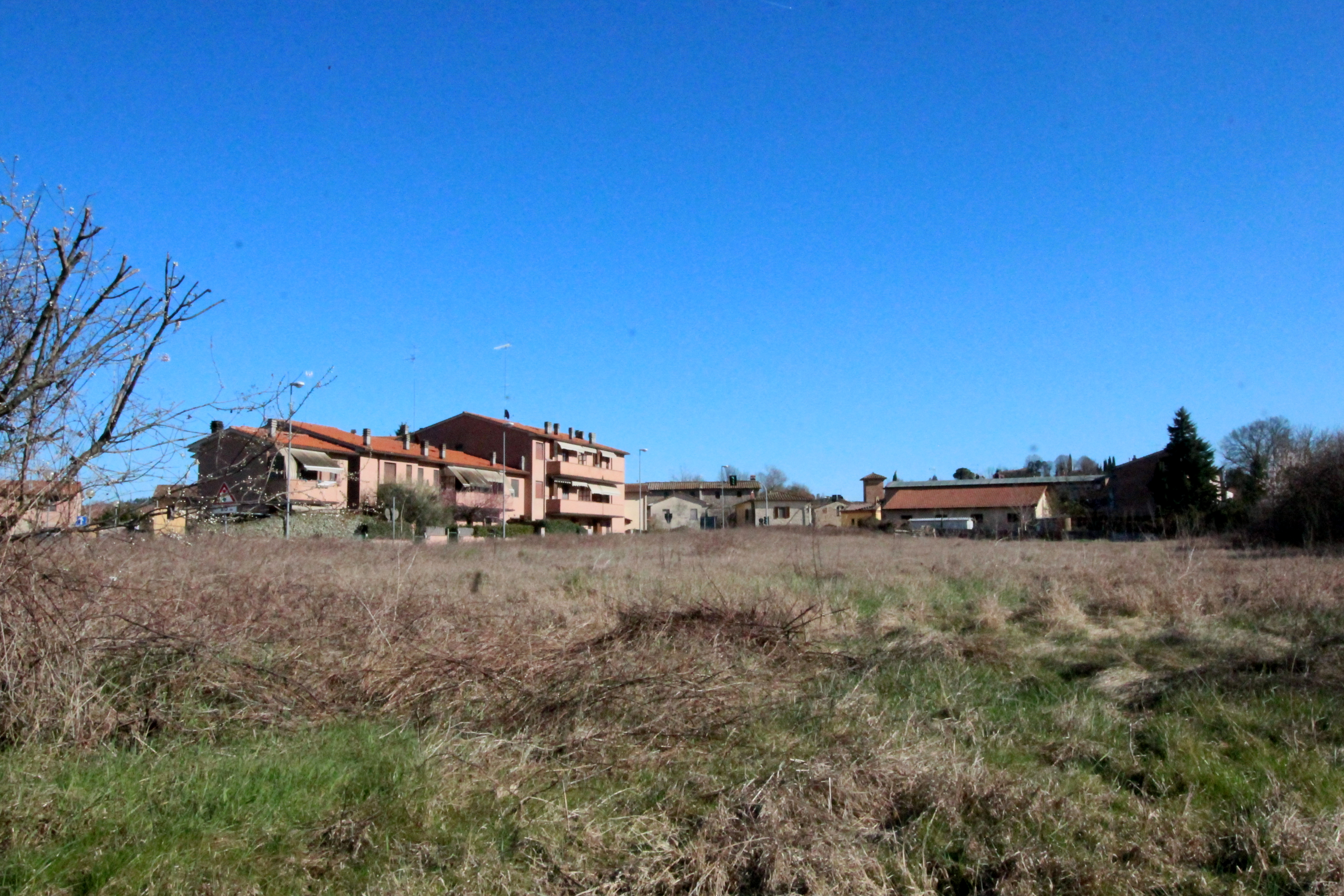 Panorama of Badesse, hamlet of Monteriggioni, Province of Siena, Tuscany, Italy